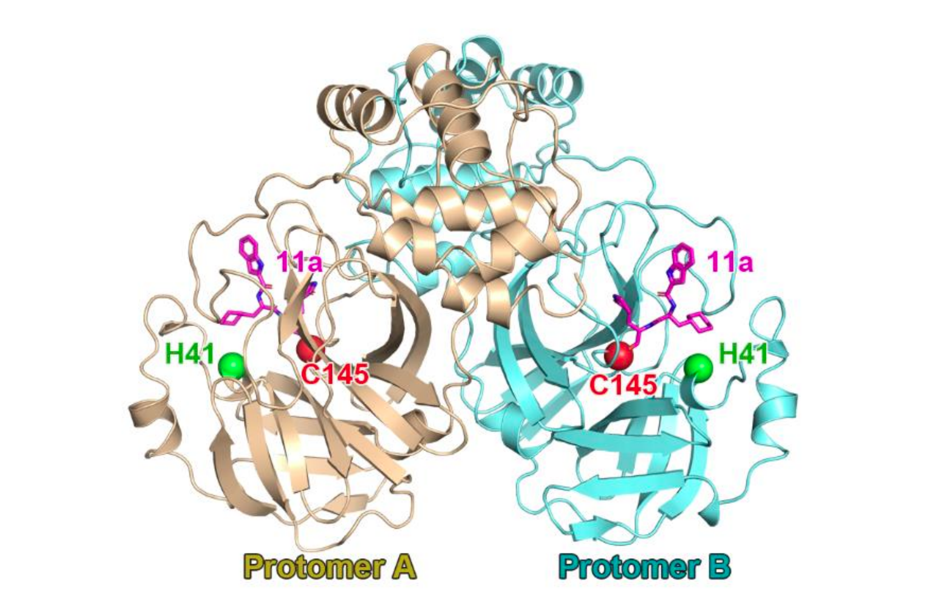 S2. Overall structure of SARS-CoV-2 Mpro. Cartoon representation of SARS-CoV-2 Mpro in complex with 11a. Protomer A is shown in gold; protomer B in pale cyan. The catalytic dyad (His41 and Cys145) is indicated as green and red spheres, respectively. The compound 11a is shown as magenta sticks.